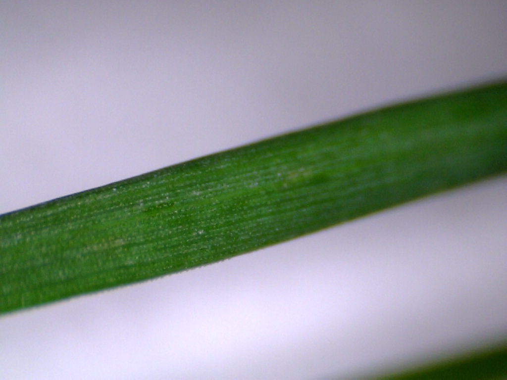 Lower side of crested dogstail leaf, smooth, glossy and keeled